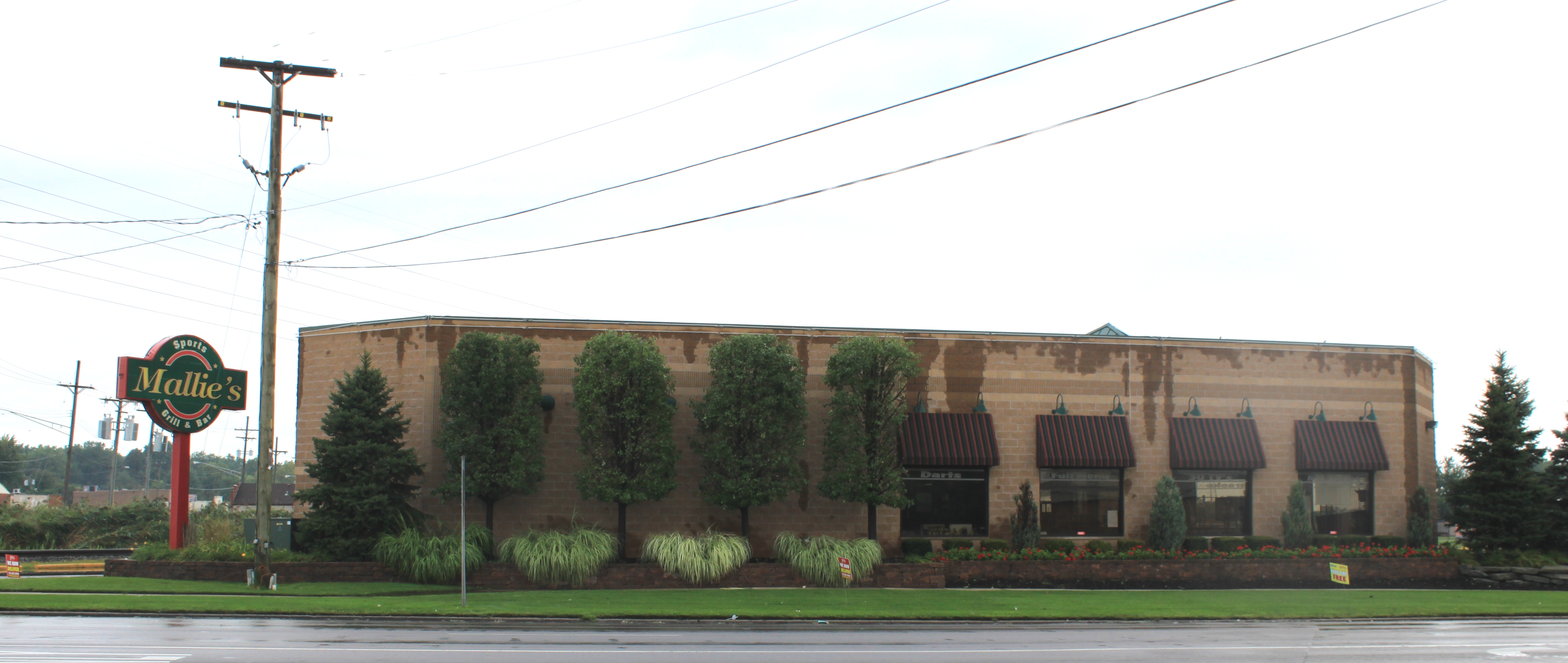 Mallie's Sports Grill & Bar, 19400 Northline Road, Southgate, Michigan.